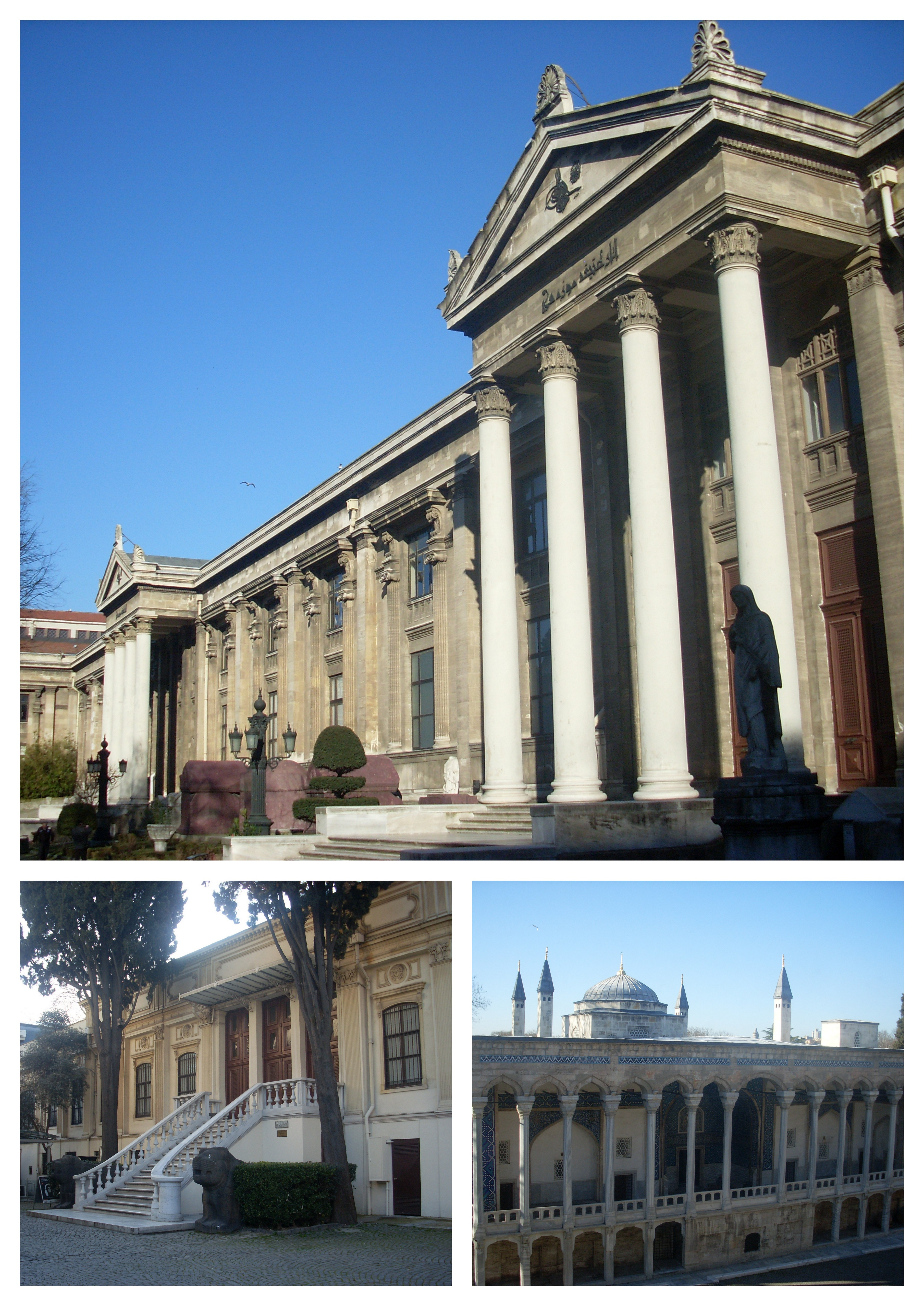 Istanbul Archaeological Museums (Archaeological Museum on top, Museum of the Ancient Orient on the left, Tiled Kiosk Museum on the right)